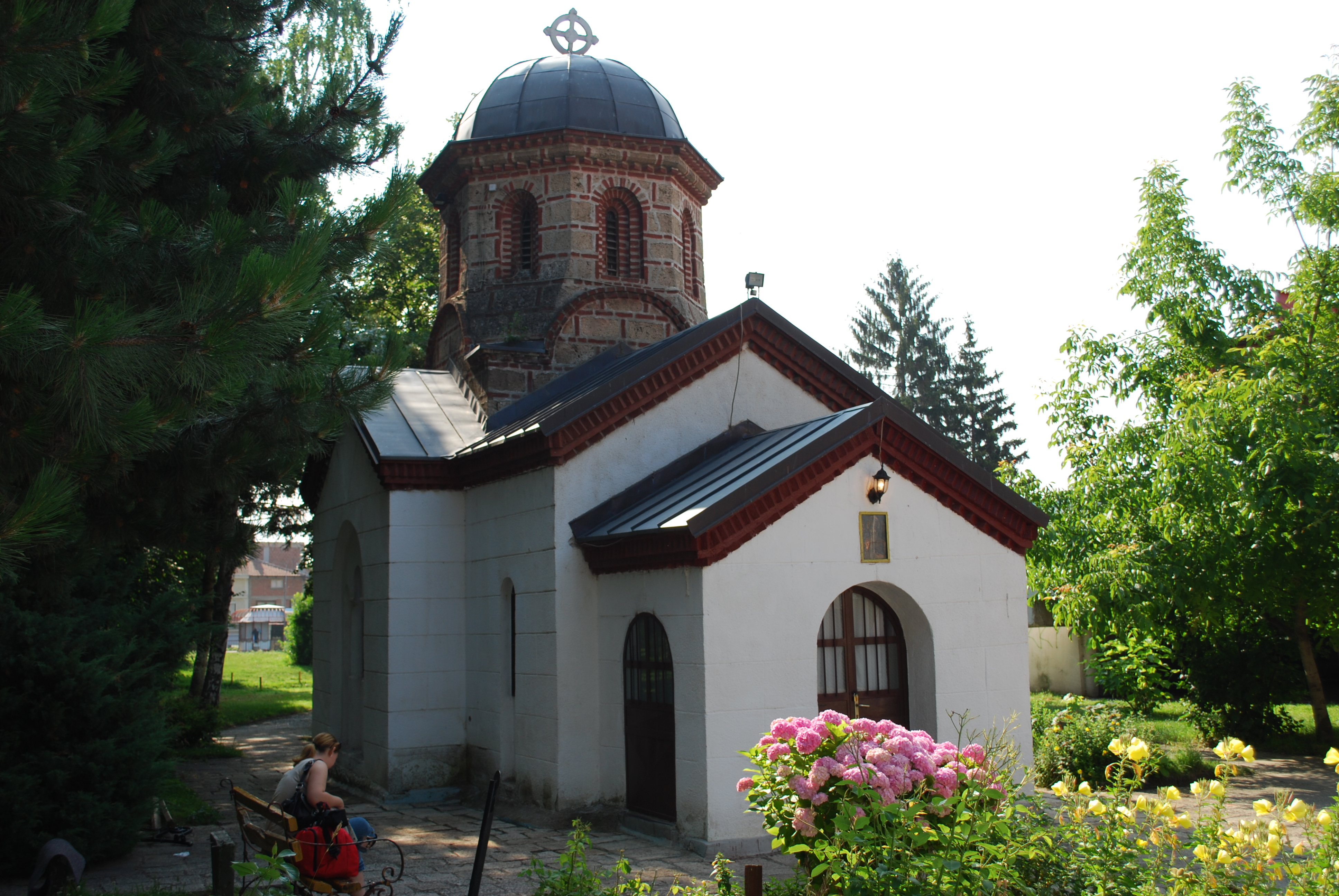 St. Nicholas Drimeni Church, Struga, Macedonia